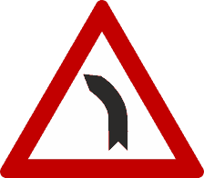 Diagram of road signs of Luxembourg